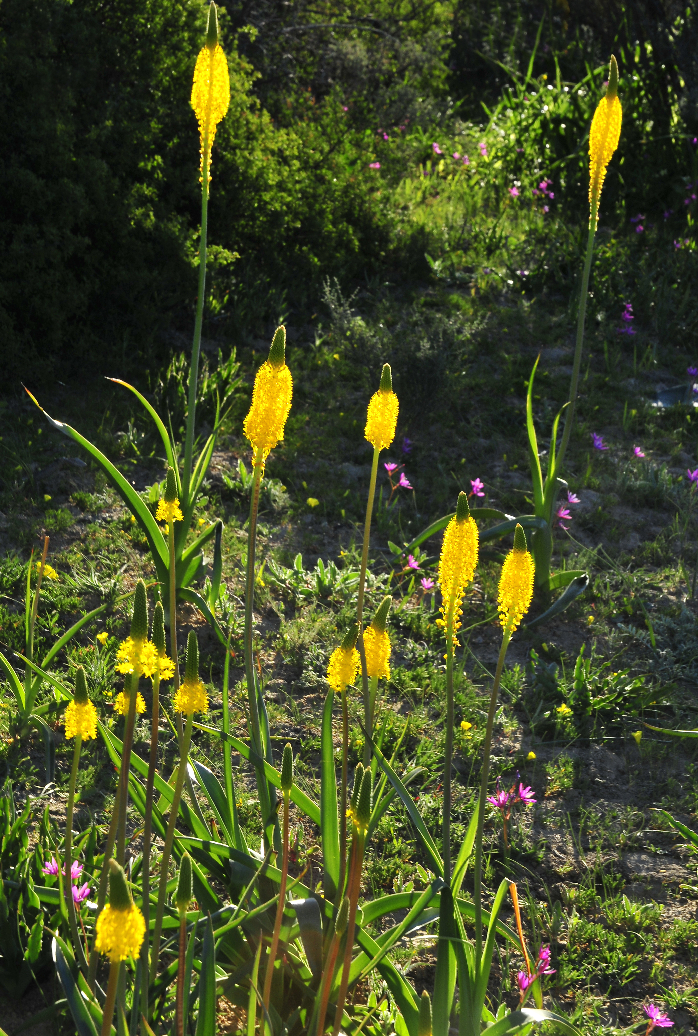 Bulbinella latifolia. Skilpad, Namaqua National Park, Northern Cape, South Africa